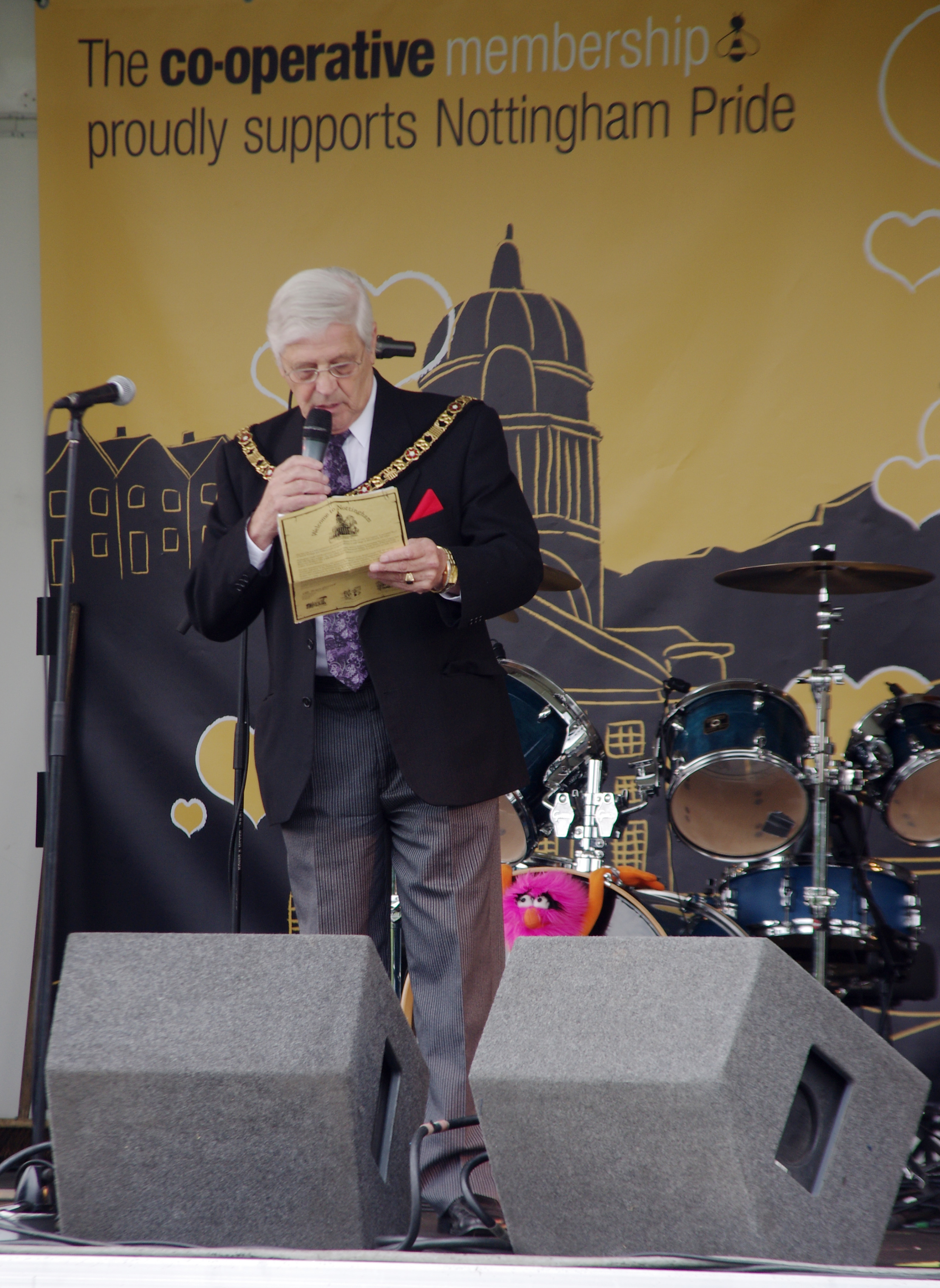 The Lord Mayor of Nottingham opens the Nottingham Pride 2010 event.